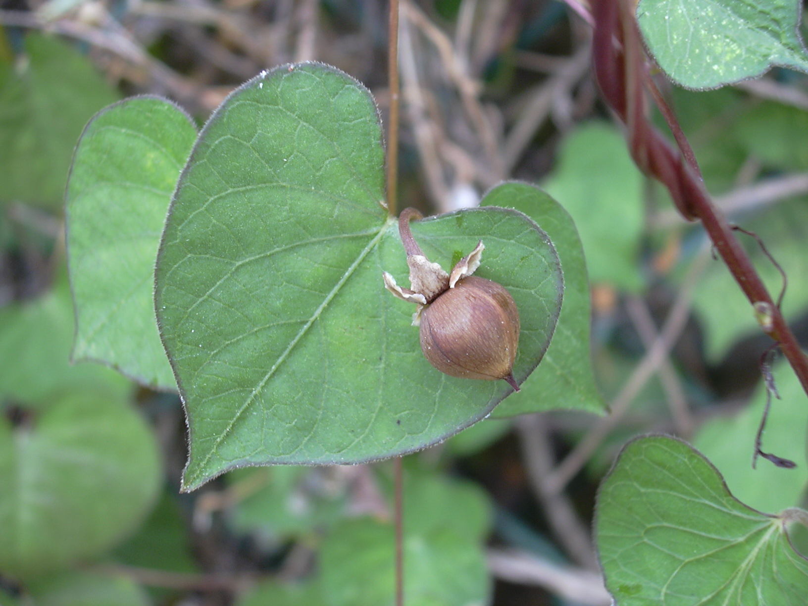 Ipomoea obscura (leaves and fruit). Location: Maui, Kahului